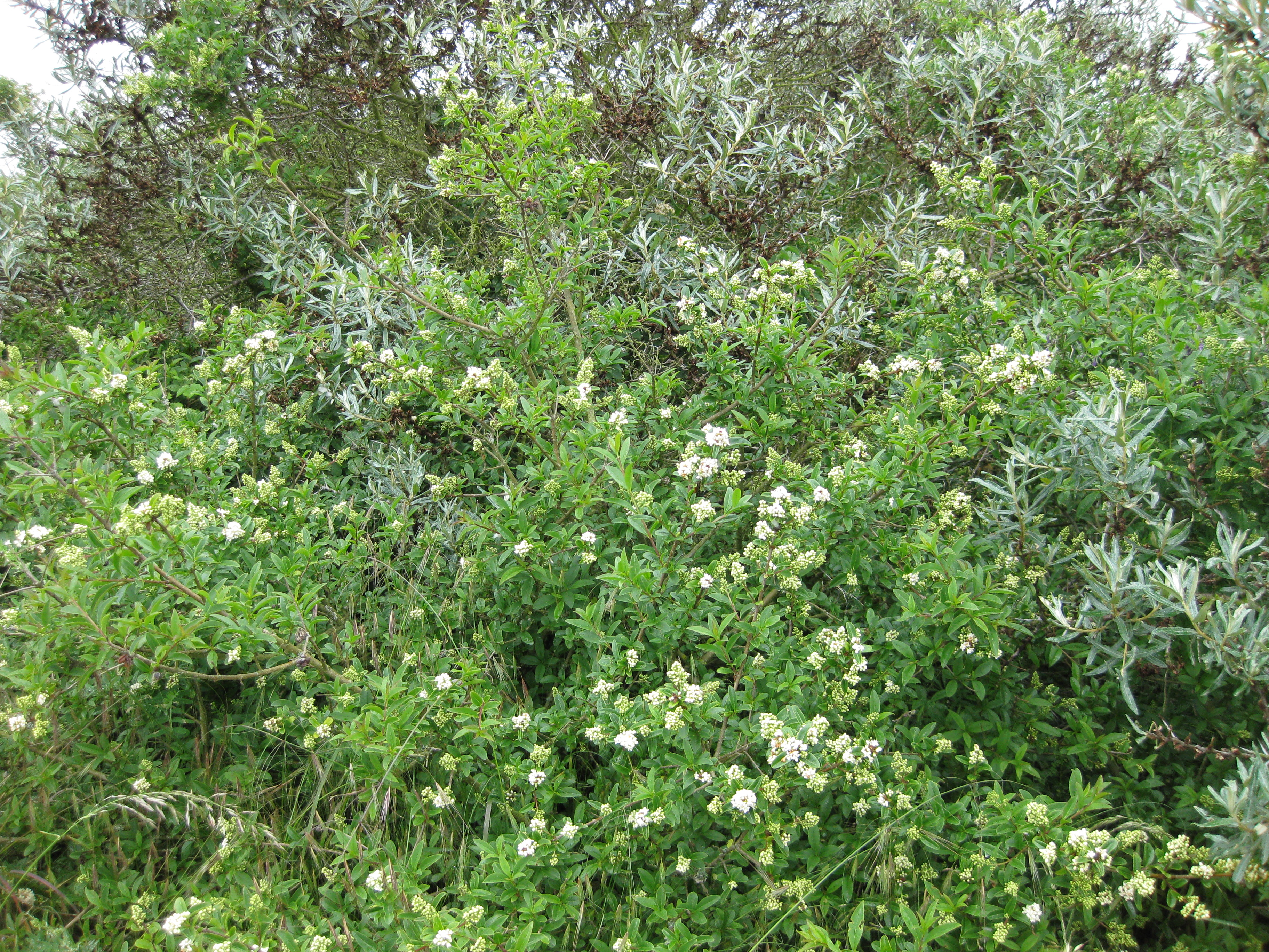 Ligustrum vulgare in the Belgian dunes